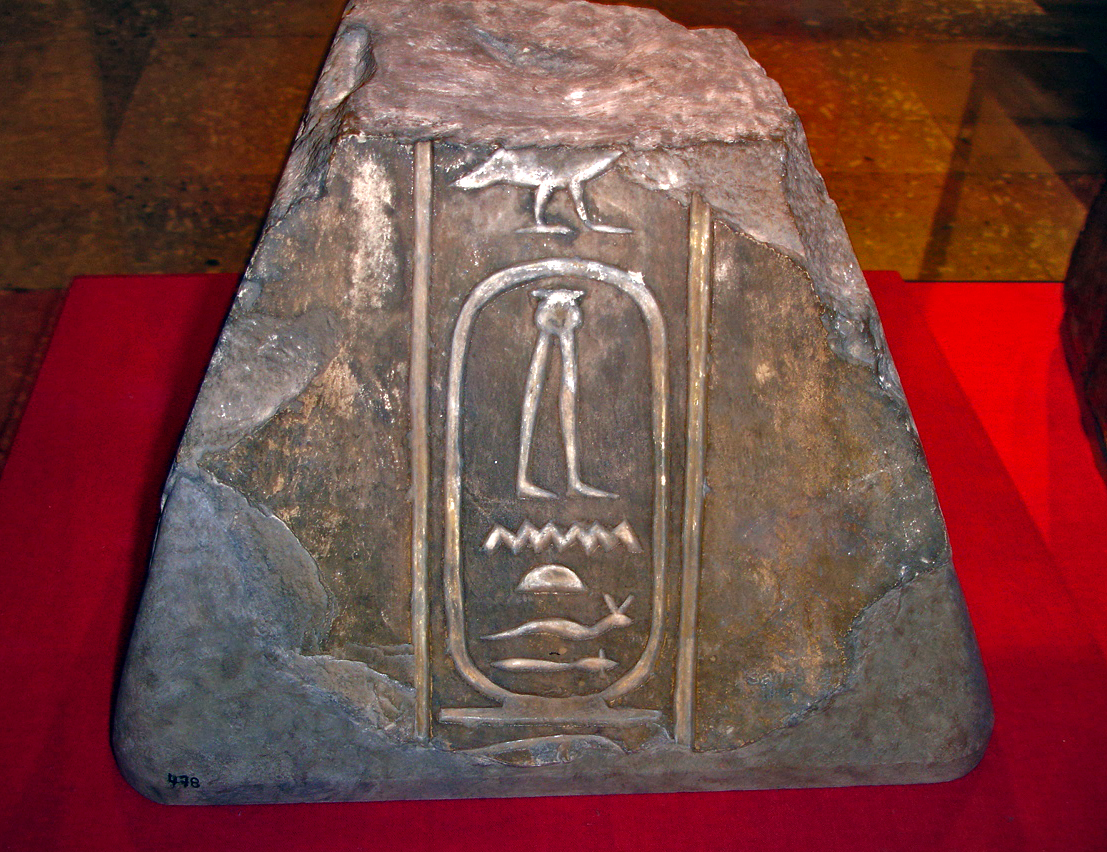 The Pyramidion of king Sekhemre-Wepmaat Intef's tomb, British Museum.